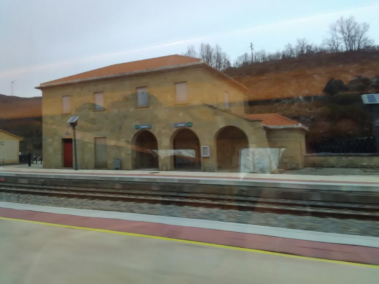 Lubián railway station. Zamora-Coruña line.